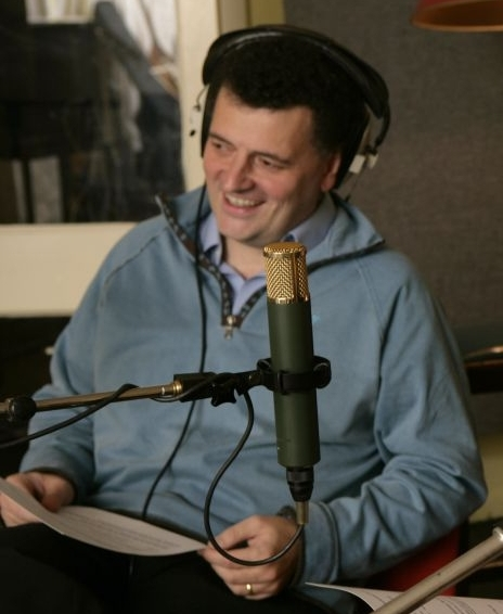 Steven Moffat recording. the DVD audio commentary for the first series of Joking Apart.